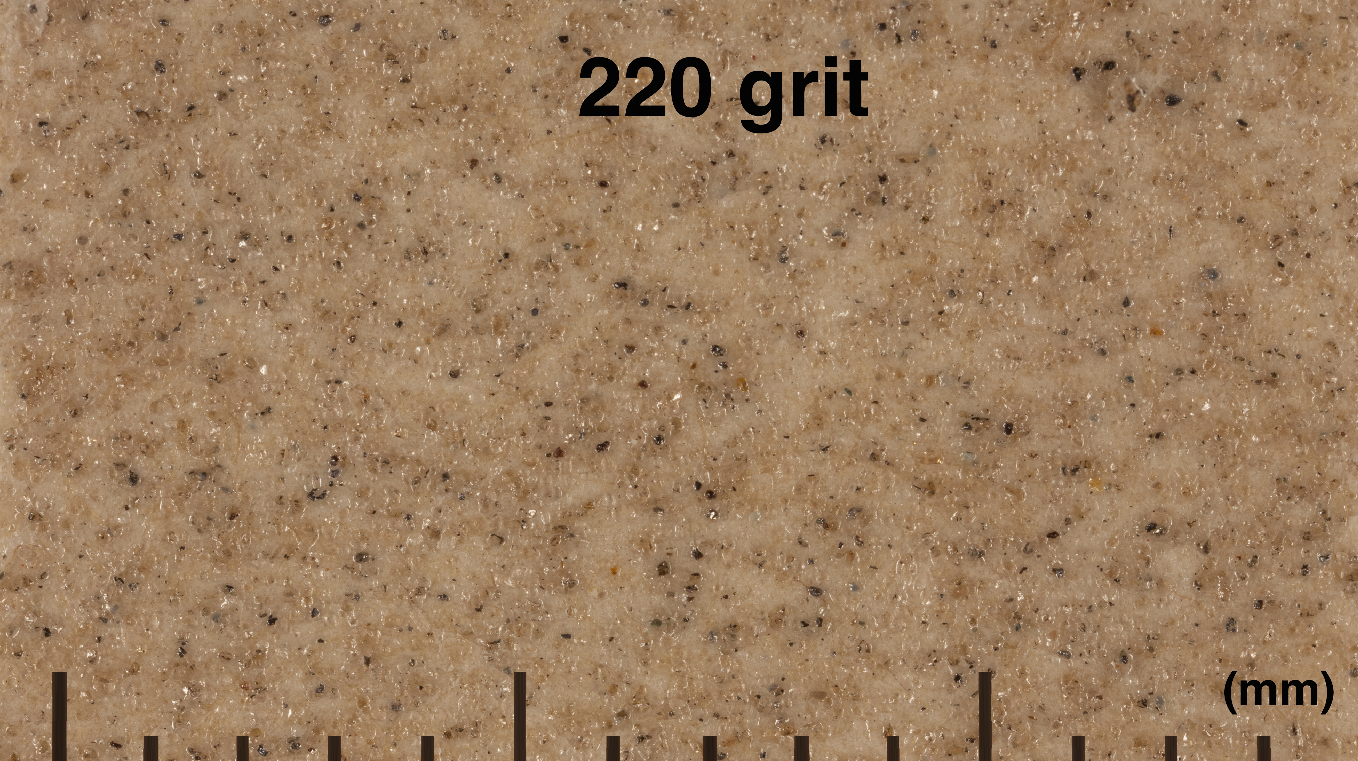 Macro photo of a 220 grit sandpaper made of aluminum oxide